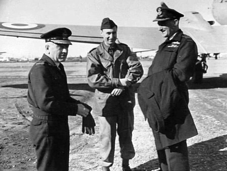 Kimpo, South Korea. 1951-12-11. Air Vice-Marshal J.P.J. Mccauley, Air Officer Commanding Eastern Area, RAAF, on arrival at Kimpo for a visit to No. 77 Squadron RAAF. With him are Wing Commander G. Steege (centre), Commanding Officer No. 77 Squadron and Group Captain A.G. Carr (right) Officer Commanding No. 90 Wing RAAF, Iwakuni, Japan.